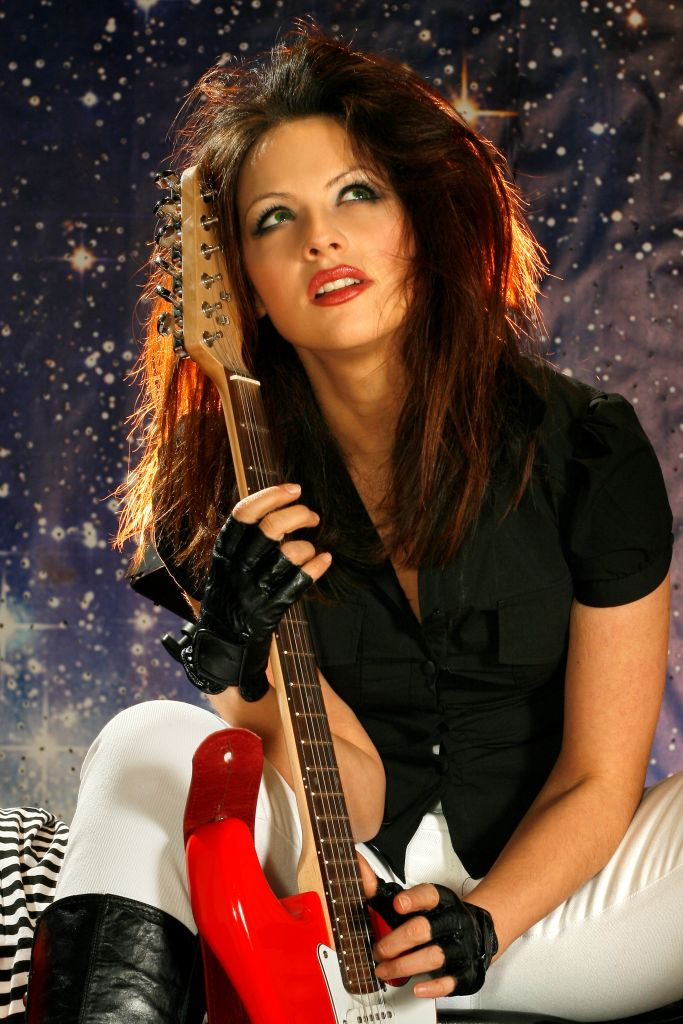 Aleksandra Pileva is rock/pop-rock singer and songwriter from Macedonia. (Born in June 10, 1980).